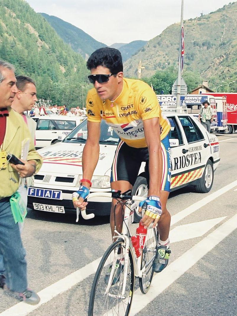 Miguel Indurain (Tour de France 1993)